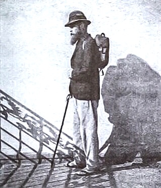 Full figure photograph of explorer and filmmaker Frederick Burlingham in his favorite everyday attire, including his sandals, walking stick, and backpack. His obituary in The Cincinnati Enquirer (June 13, 1924, p. 16) notes that in Paris (1910-1912) Burlingham "became a well known figure in American circles, partly on account of his unconventional attire." Photograph is illustration in article about Burlingham by Ernest A. Dench titled "Taking Pictures in Extraordinary Places" and published in Motion Picture Magazine, March 1915, p. 89.